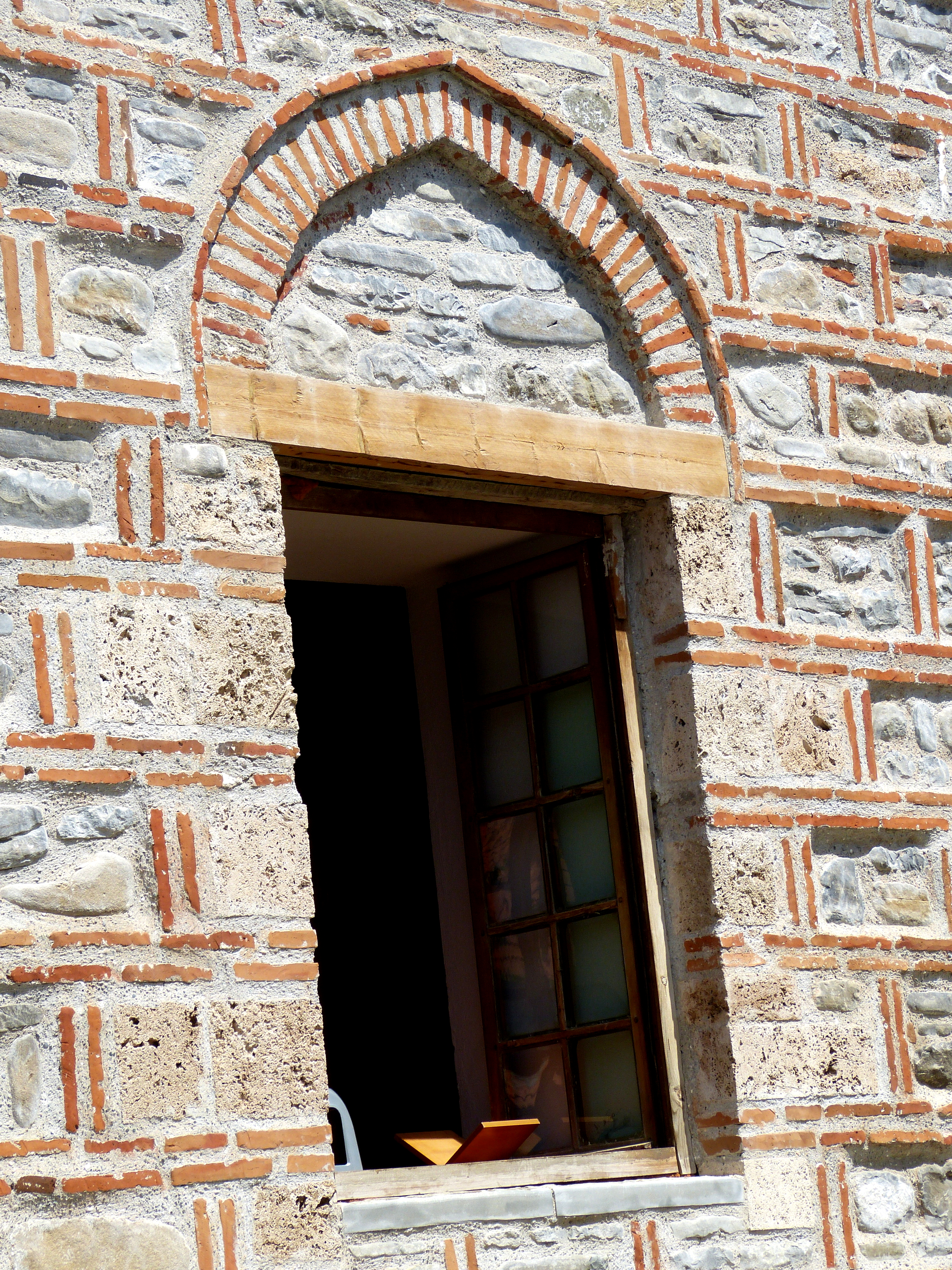 Elbasan ( Albania ). Mbret-Mosque ( 1492 ): Window.